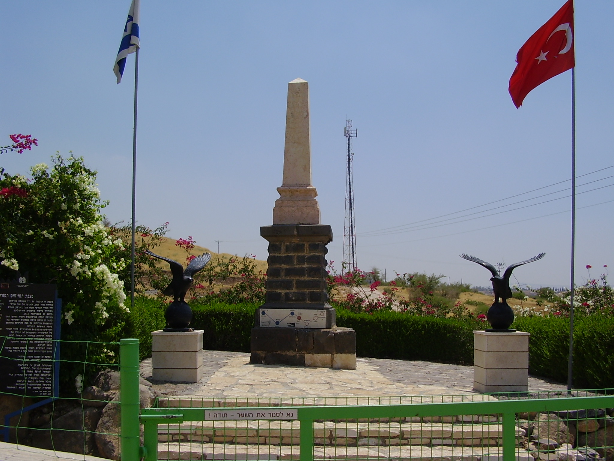 Turkish pilots memorial near Ha'on